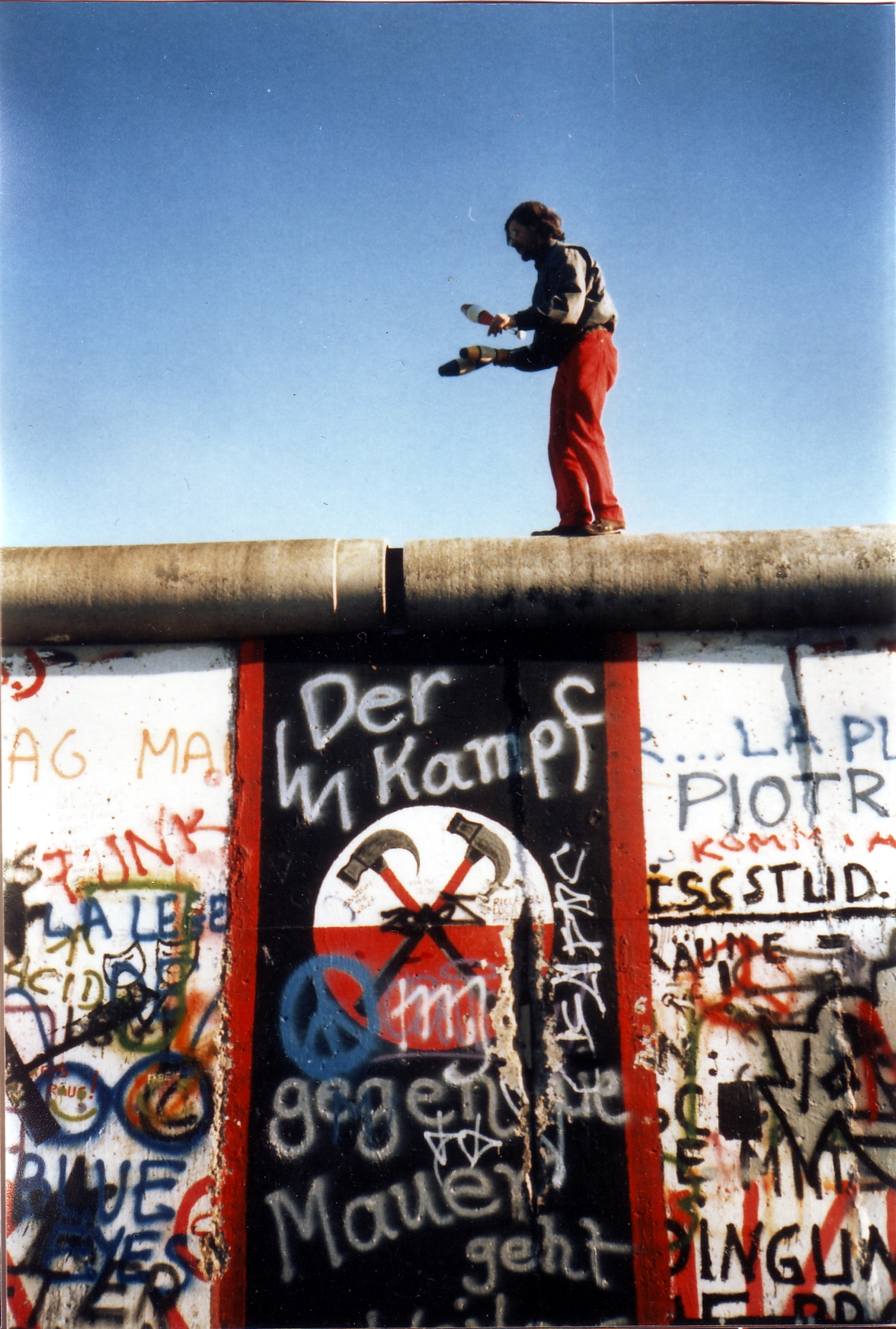 Juggling on the Berlin Wall on 16. November 1989. The black, white and red graffitti banner on the wall below the juggler depicts a pair of marching hammers, an allusion to the film Pink Floyd The Wall. The text sprayed over the banner reads "Der Kampf gegen [d]ie Mauer geht [weiter.]" (German), which means "the fight against the wall continues".